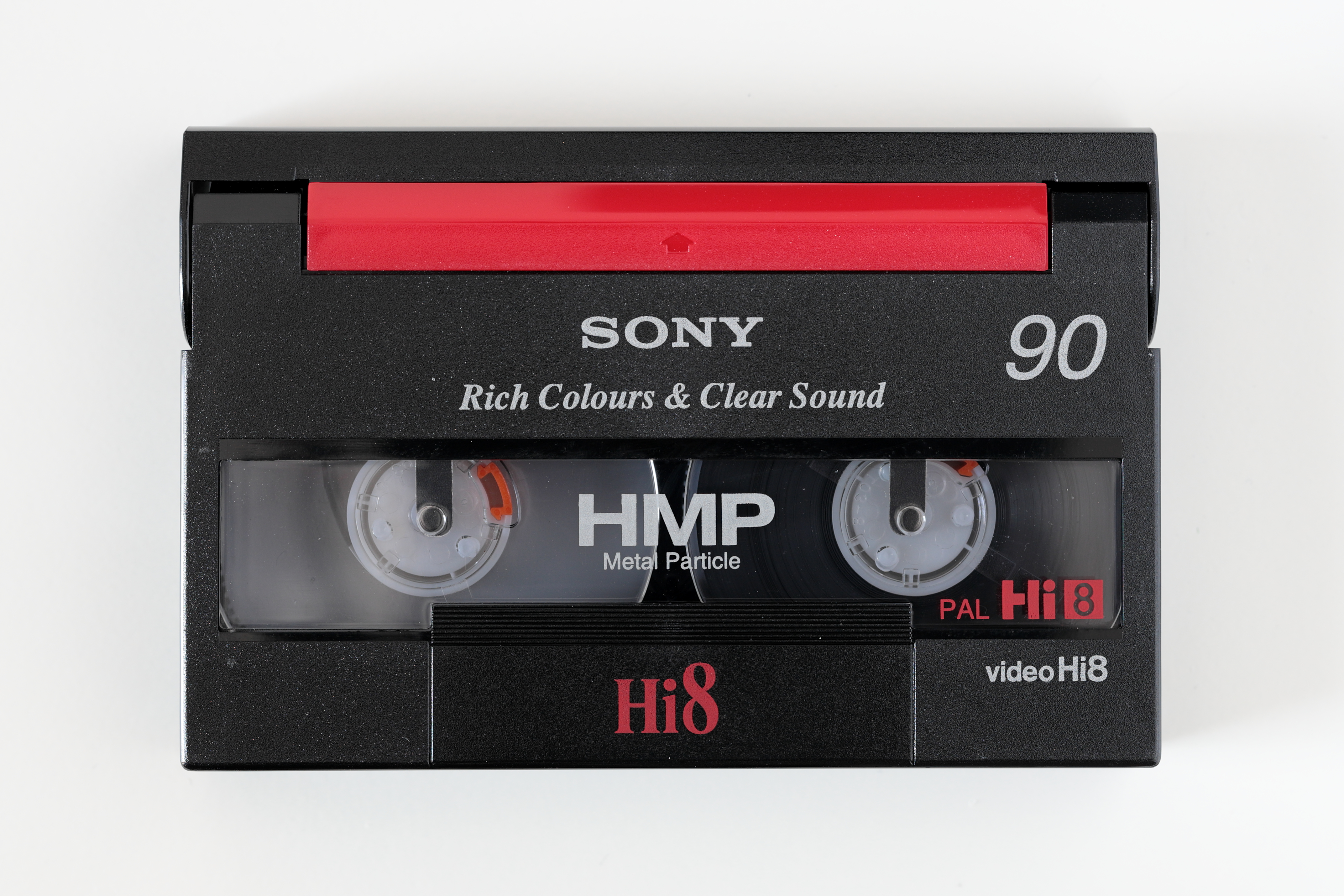 A Sony Hi8 8mm videocassette for PAL format. The case says 90 to indicate its recording capacity in minutes, and also mentions "Rich Colours & Clear Sound", and "HMP Metal Particle".